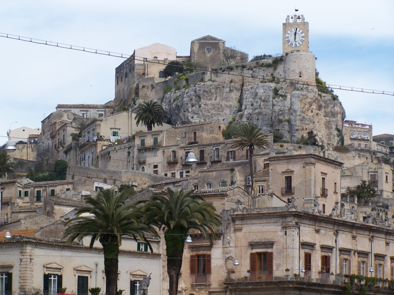 released into public domain in , same name file